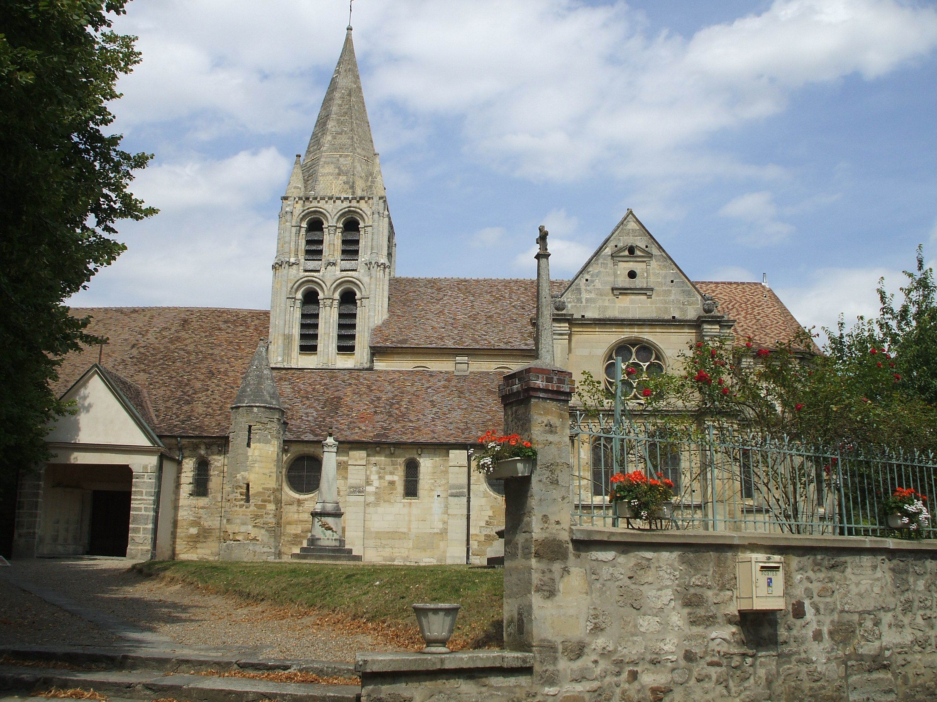 churche of ennery val d'oise france